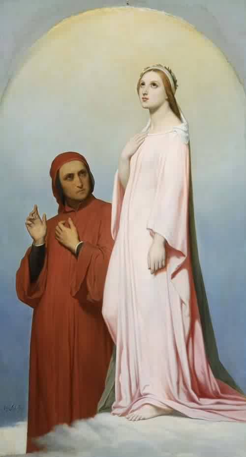 Dante and Beatrice. Boston museum of arts